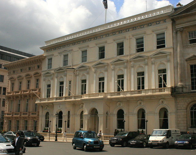 The East India Club, 16 St James's Square A bastion of tradition, this gentleman's club overlooks St James's Square at the heart of London's clubland. Over the years, the East India Club has subsumed others such as the Devonshire, the Sports, and the Public Schools Clubs, not forgetting the Eccentric Club.